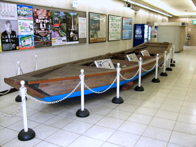 Boat on display at Yagiri Sta.